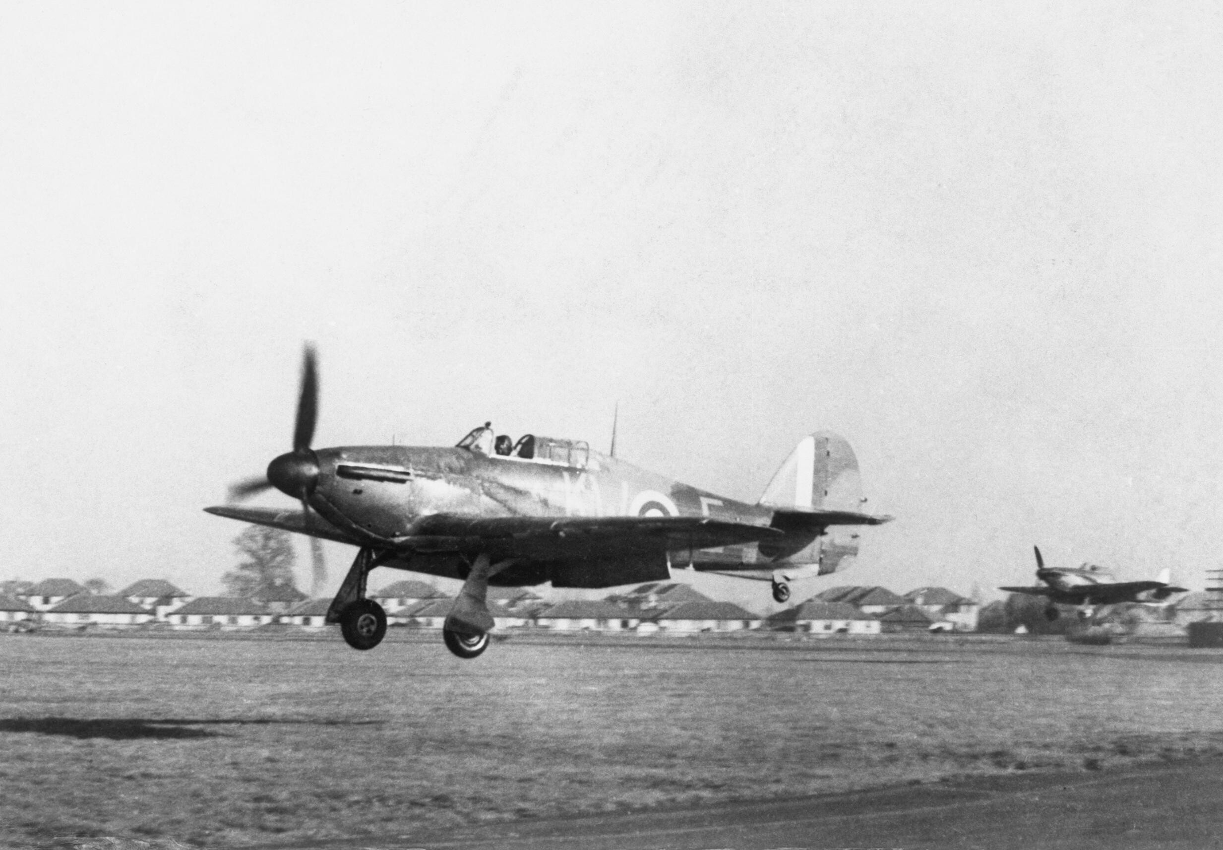 Royal Air Force Fighter Command 1940 Two Hawker Hurricanes of No. 615 (County of Surrey) Squadron, about to land at Northolt, November 1940.